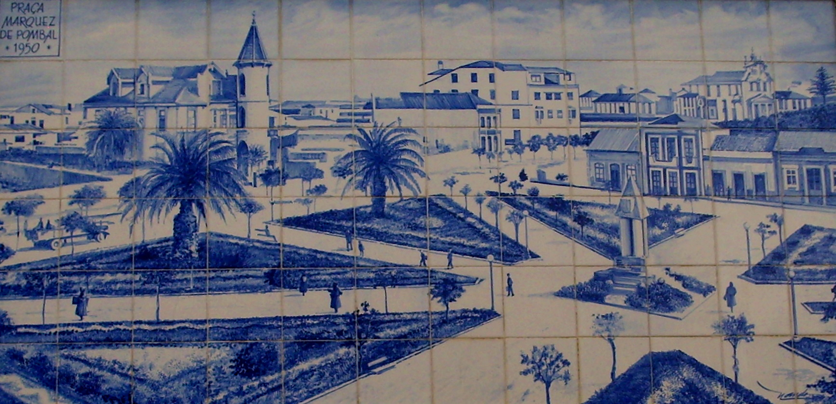 Marquês de Pombal Square in Póvoa de Varzim, Portugal